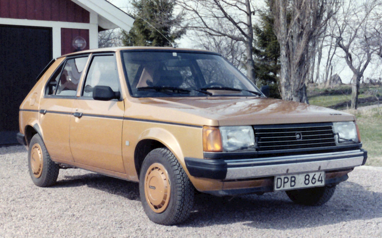 Simca Chrysler Horizon GLS 1979 (Made in France) 1.5L petrol engine, painted Bronze Transvaal